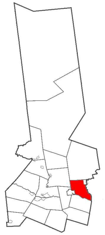 Map of Herkimer County highlighting Manheim